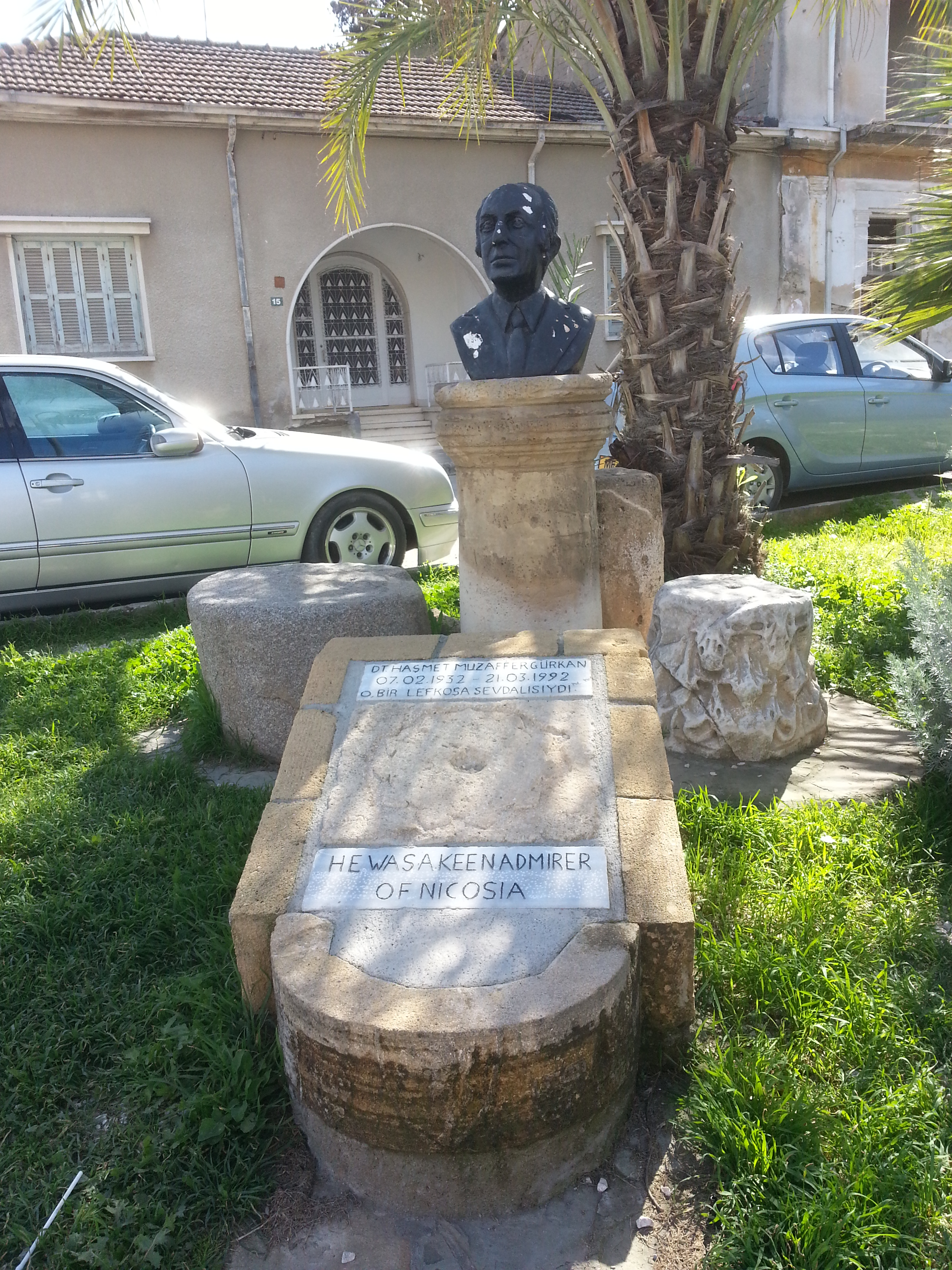 Bust of Turkish Cypriot writer and "keen admirer of Nicosia", Haşmet Muzaffer Gürkan, in North Nicosia.